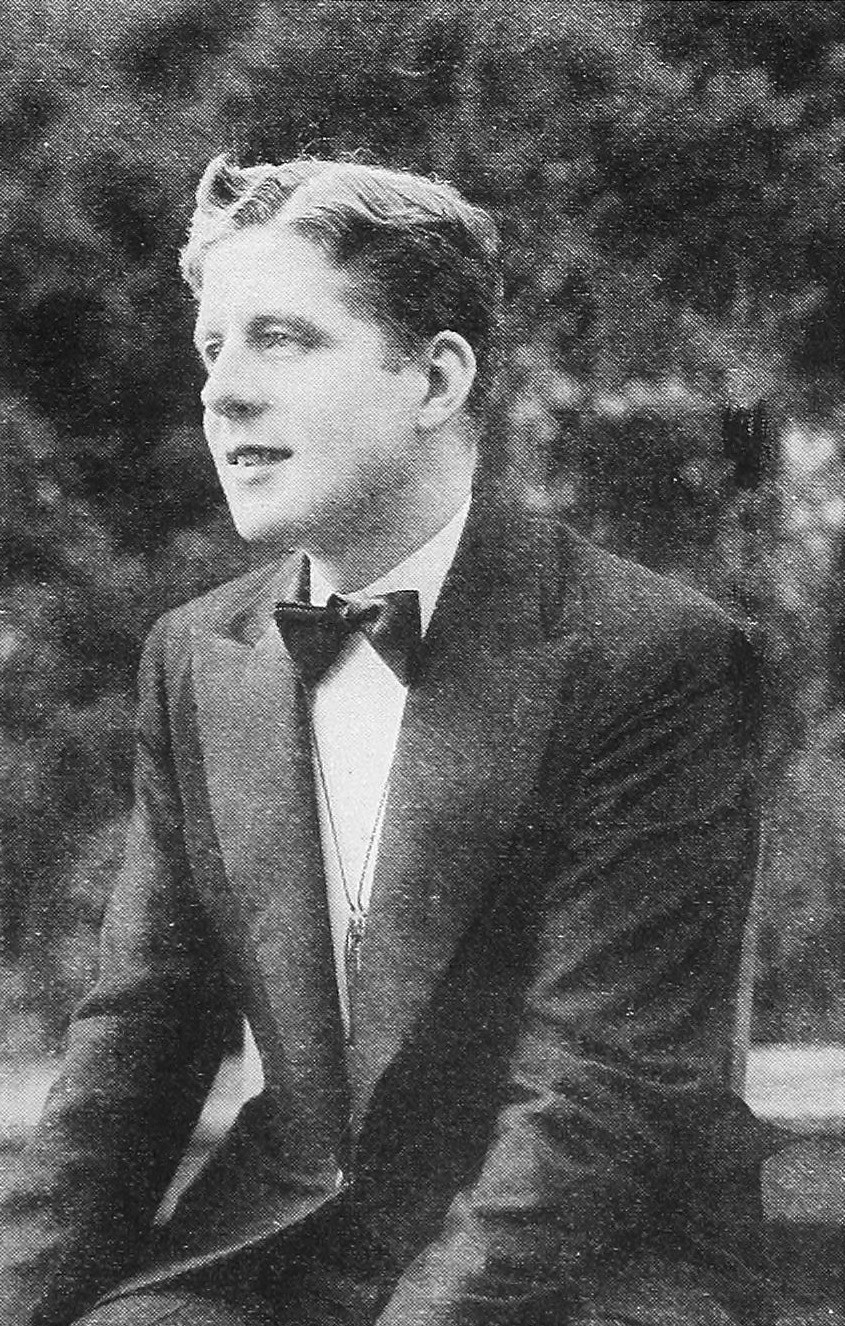 Screenland, Jan. 1930, pgs. 22-23